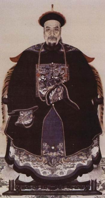 Guan Tianpei, military leader of the Qing Dynasty.